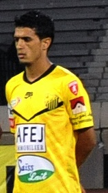 Chemseddine Chtaibi, September 2011